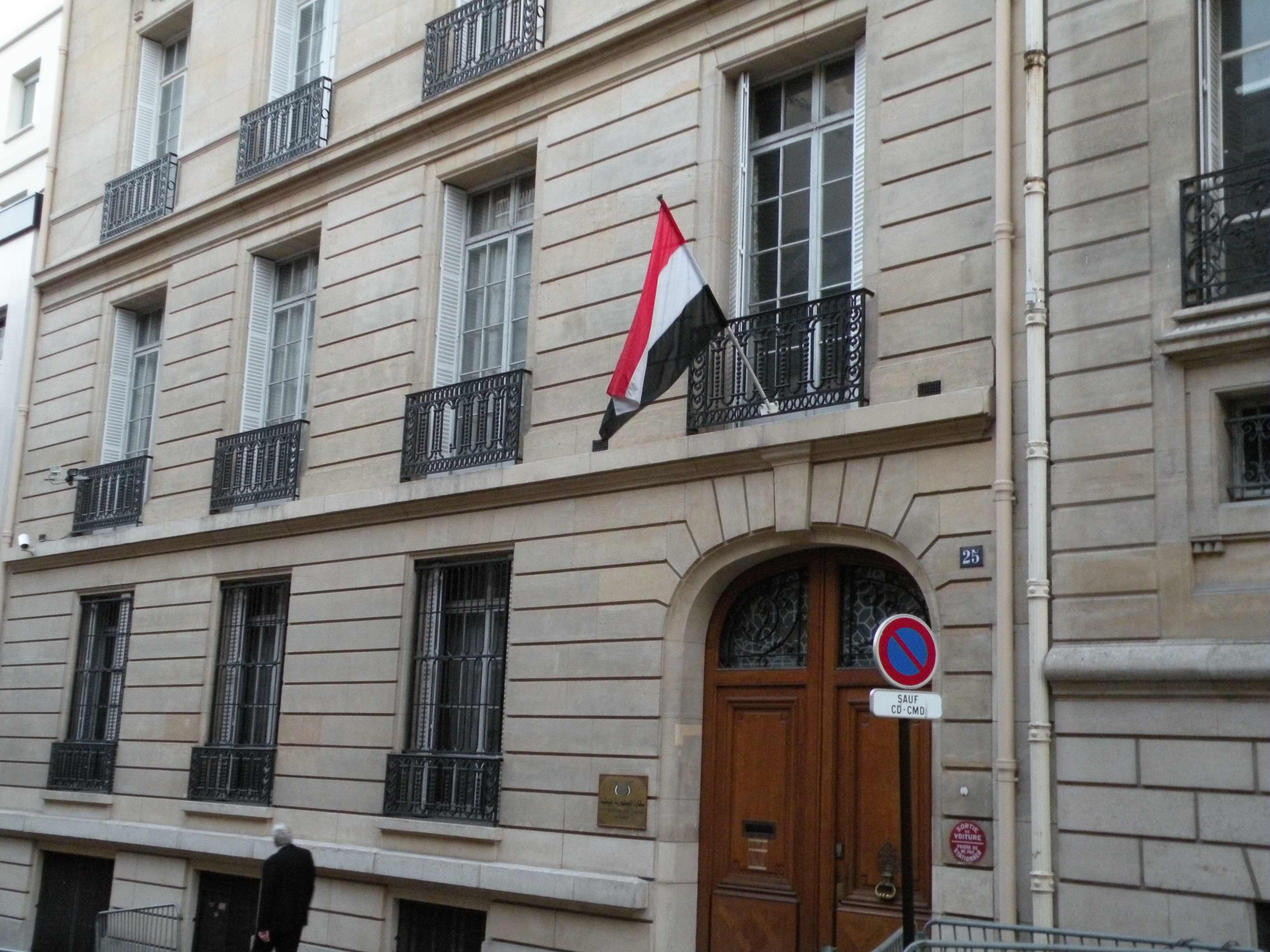 Yemenite embassy in France, Paris